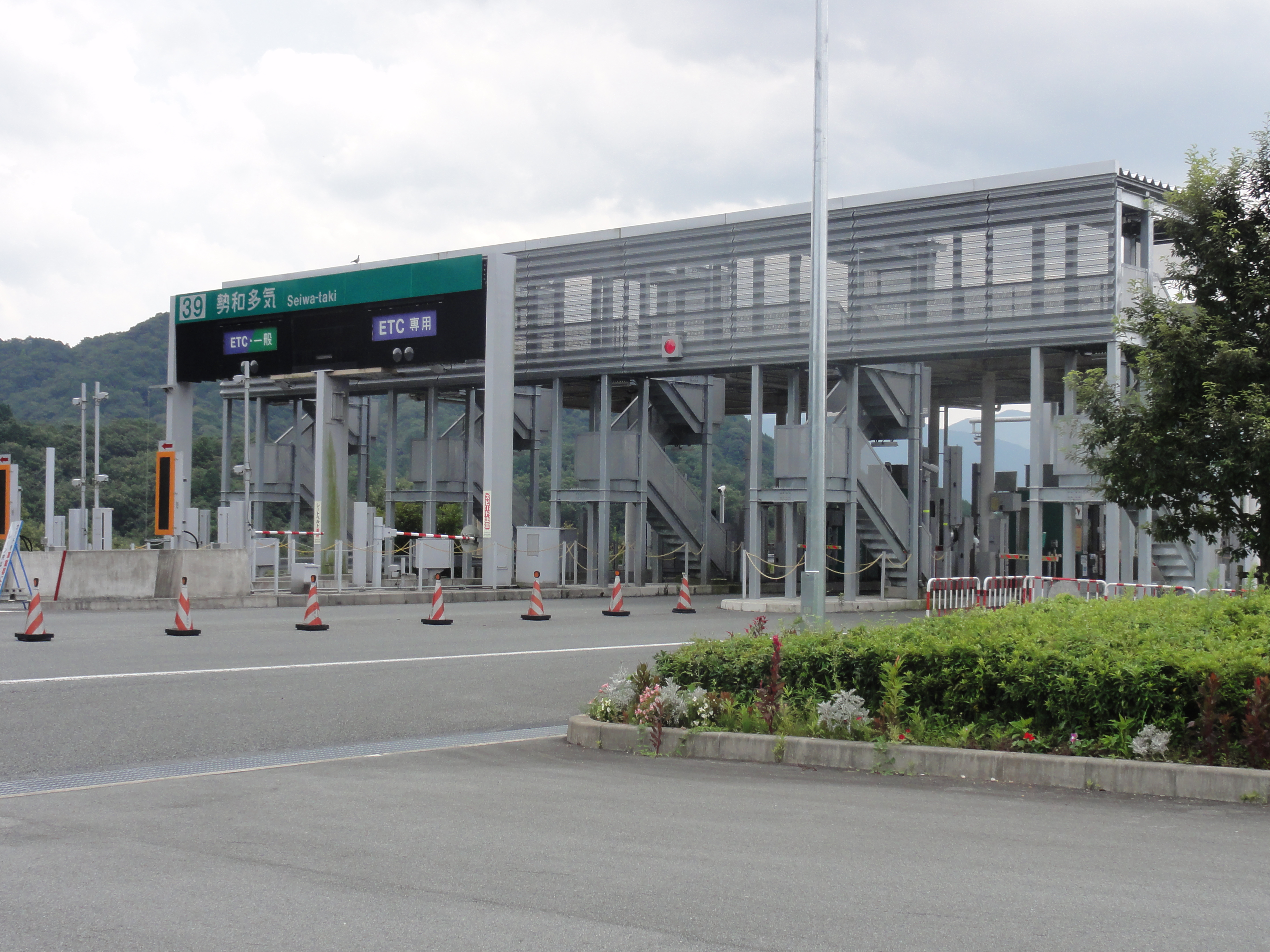 Seiwa-Taki Interchange of Ise Expressway, Mie Pref.,Japan